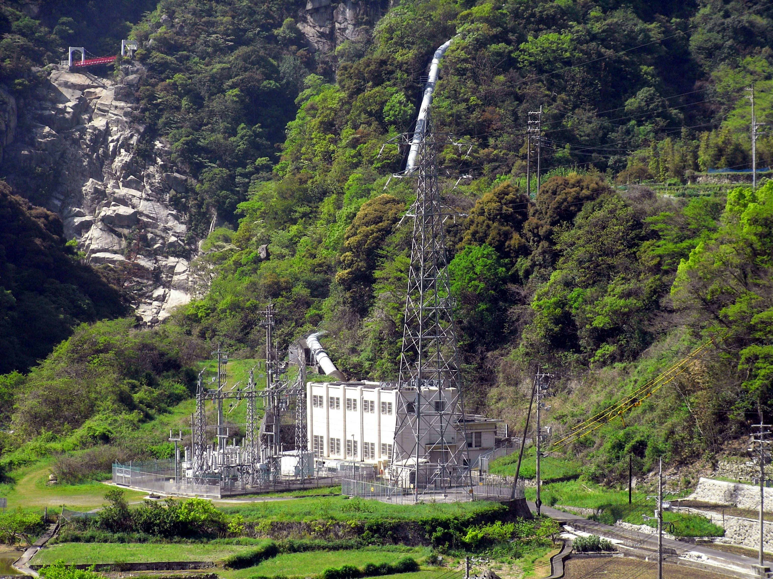 Hiro power station(Kurosegawa river/Hiroshima pref./Japan)